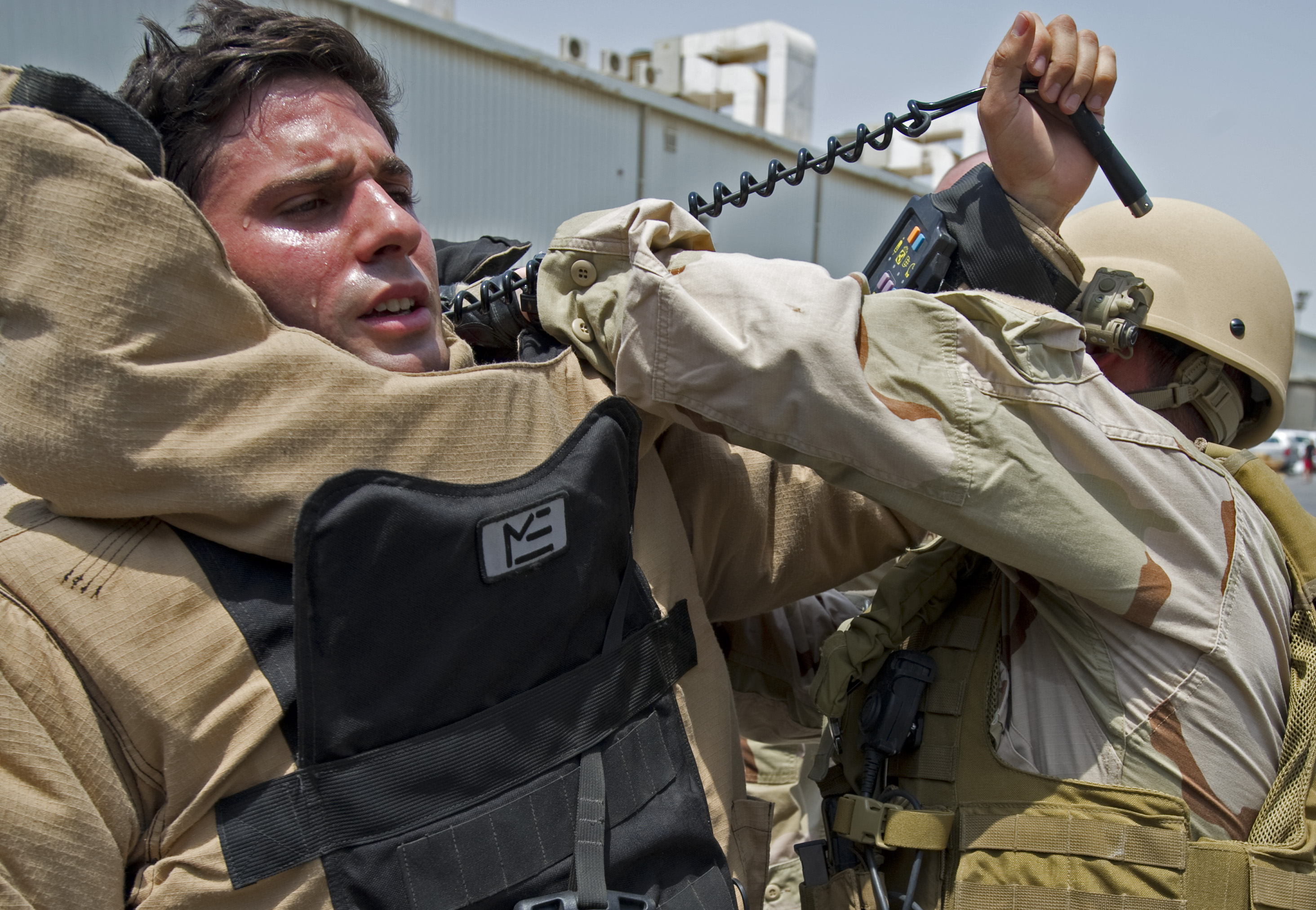 NAVAL SUPPORT ACTIVITY, Bahrain (Aug. 10, 2011) Explosive Ordnance Disposal Technician 3rd Class Scott Carlson, right, helps Explosive Ordnance Disposal Technician 3rd Class Christian Rivera put on a bomb suit during an emergency response training scenario. The Sailors, assigned to Explosive Ordnance Disposal Mobile Unit (EODMU) 11, are assigned to Task Group 56.1, providing maritime security operations and theater security cooperation efforts in the U.S. 5th Fleet area of responsibility. (U.S. Navy photo by Mass Communication Specialist 3rd Class Martin L. Carey/Released)